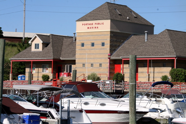 The Portage Public Marina